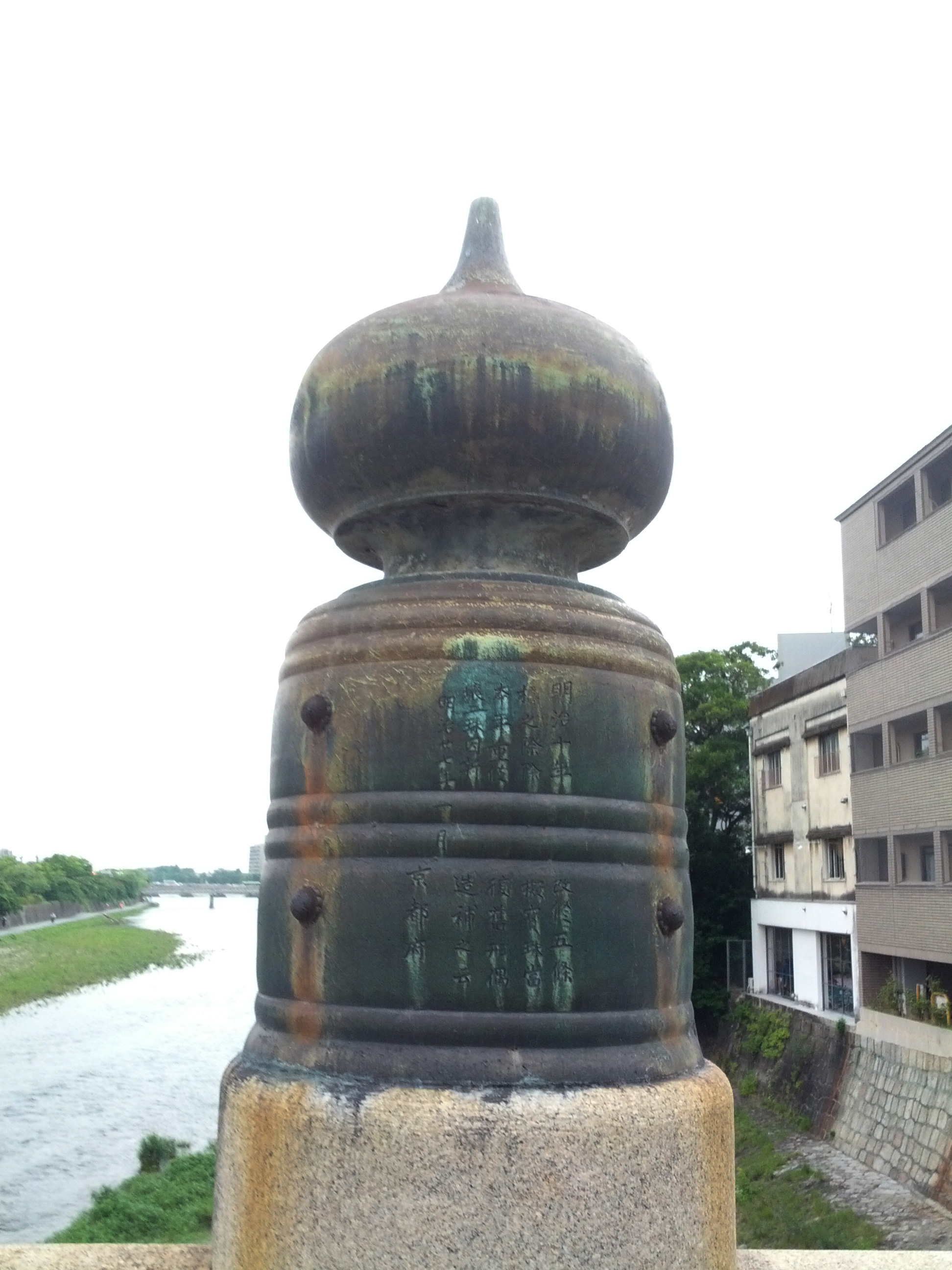 a baluster finial of Gojo-ohashi Bridge which was put in 1877.